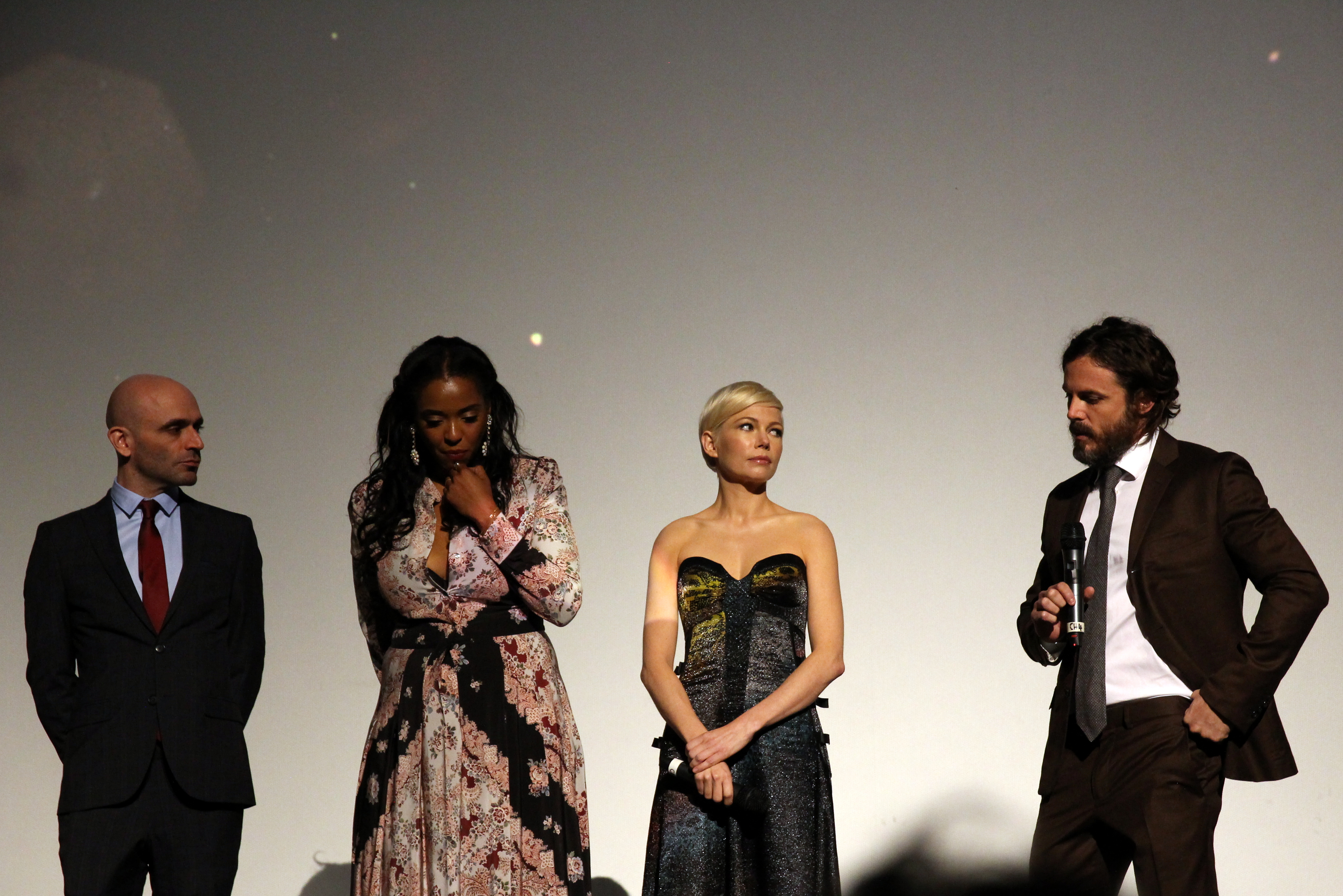 Two producers, Michelle Williams and Casey Affleck at the Manchester by the Sea premiere